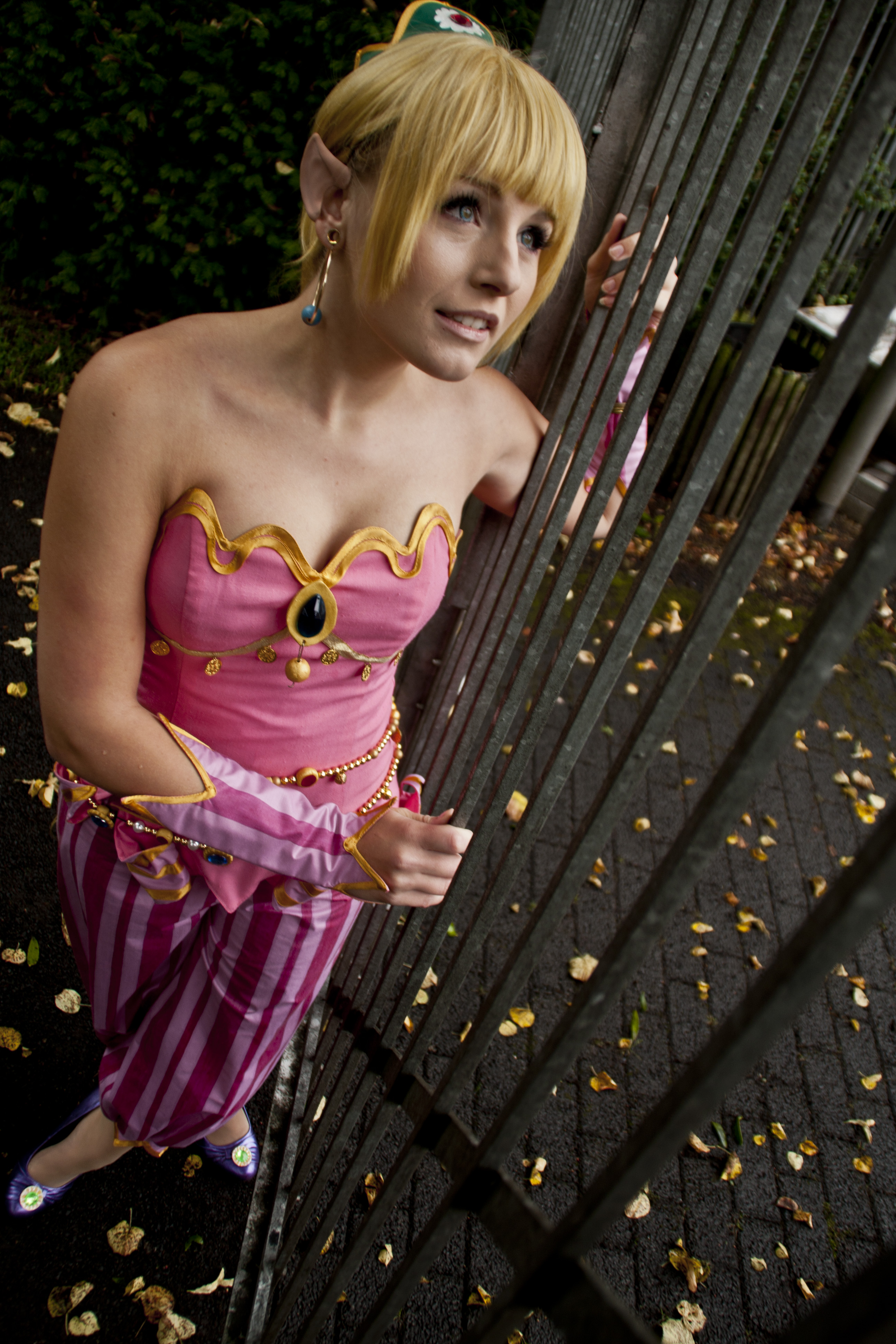 Cosplay of the character Primm, or Purim (プリム Purimu), from Secret of Mana.